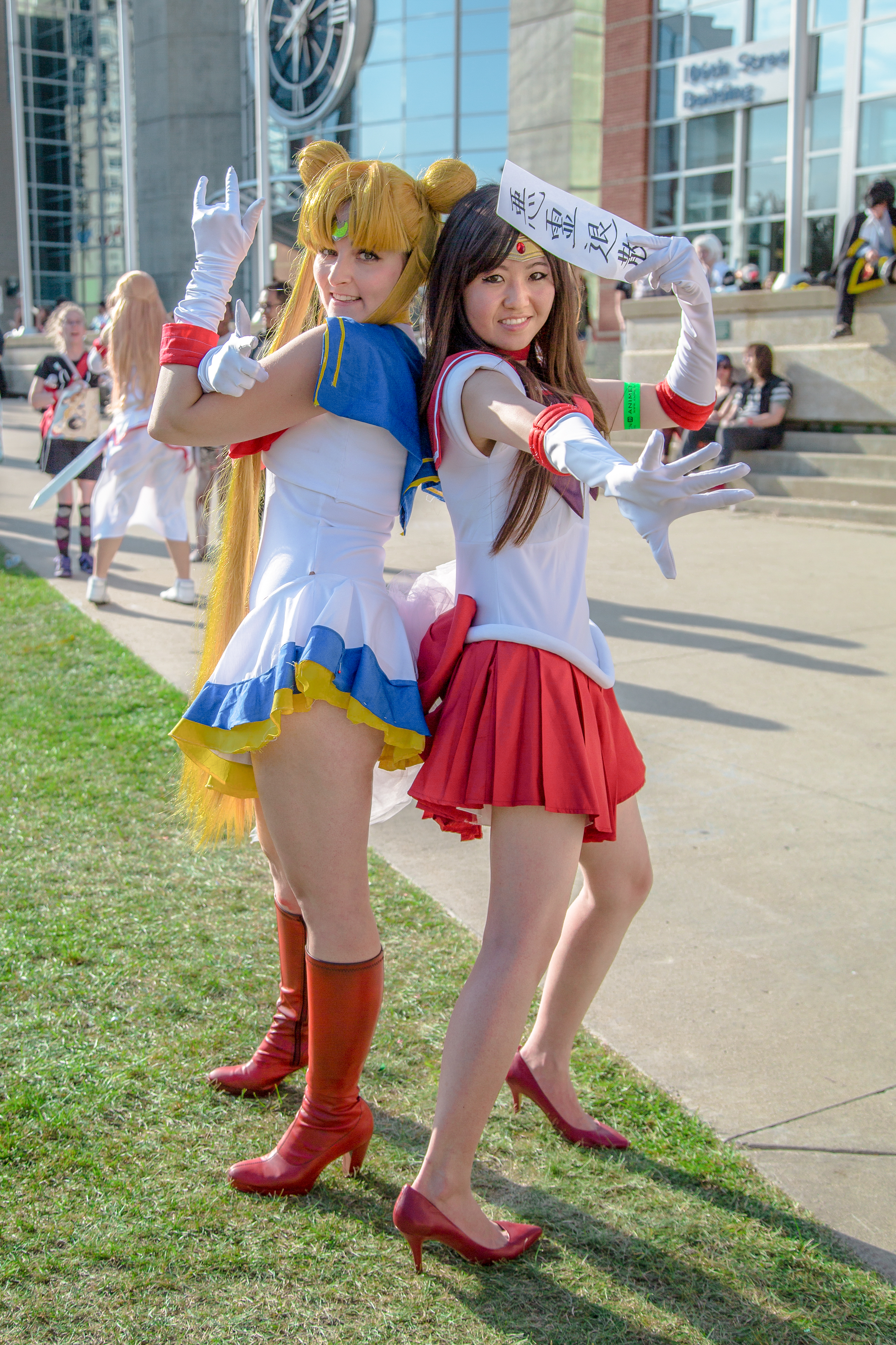 Edmonton Animethon 20 - 2013